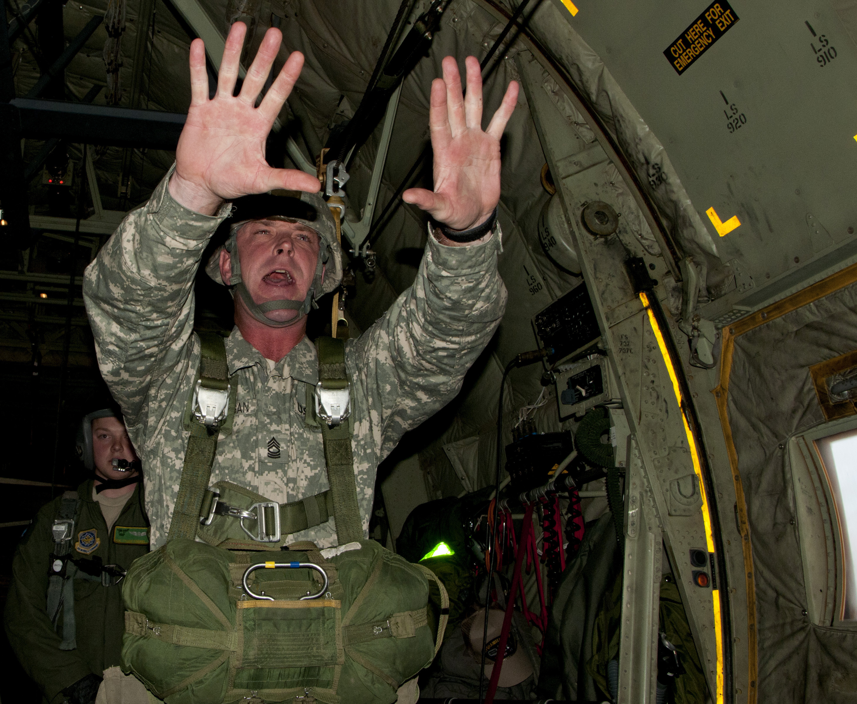 U.S. Army Master Sgt. Raymond Geoghegan, a jumpmaster assigned to the 782nd Brigade Support Battalion, 82nd Airborne Division gives the 10-minute time warning to paratroopers, as they approach Luzon Drop Zone and prepare to conduct airborne operations at Fort Bragg, N.C., Nov. 21, 2013. During airborne operations, jumpmasters voiced all commands to the prospective jumpers and ensured that they exited the aircraft properly and in a safe manner.